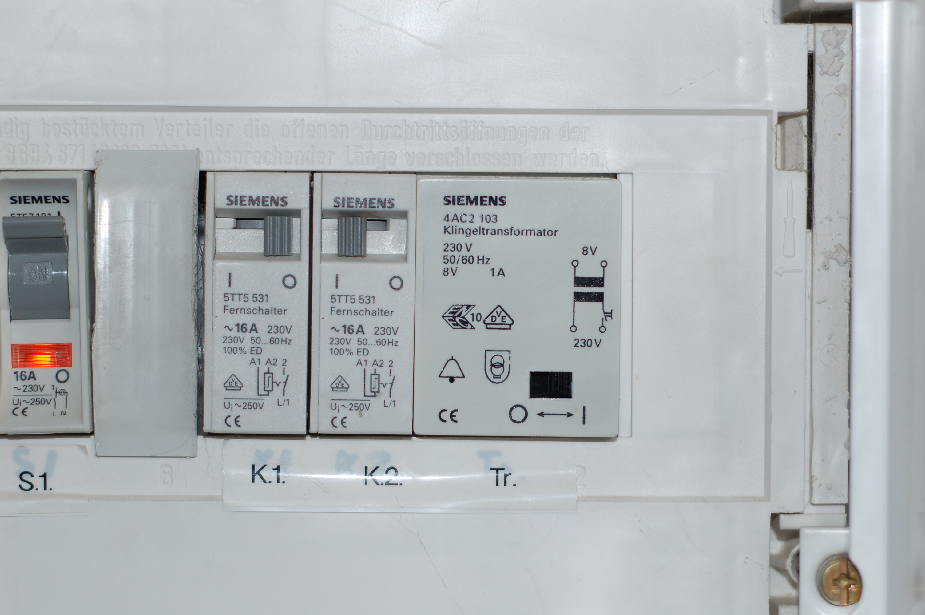 Part of fuse box with transformer and other panel products.